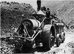 Old steam-powered locomobile, manufactured by Best, used from 1902 to 1905 between Guardiola de Berguedà and the Asland cement factory, in Catalonia.